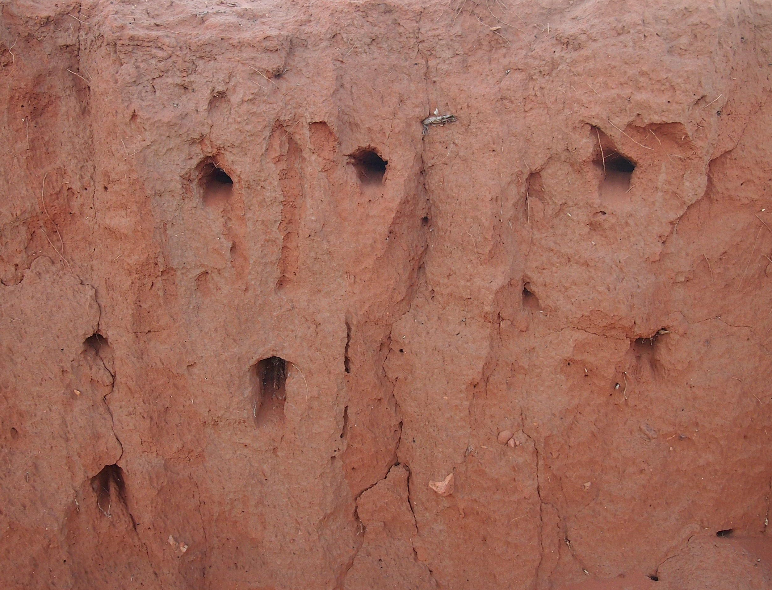 Bee eater nests